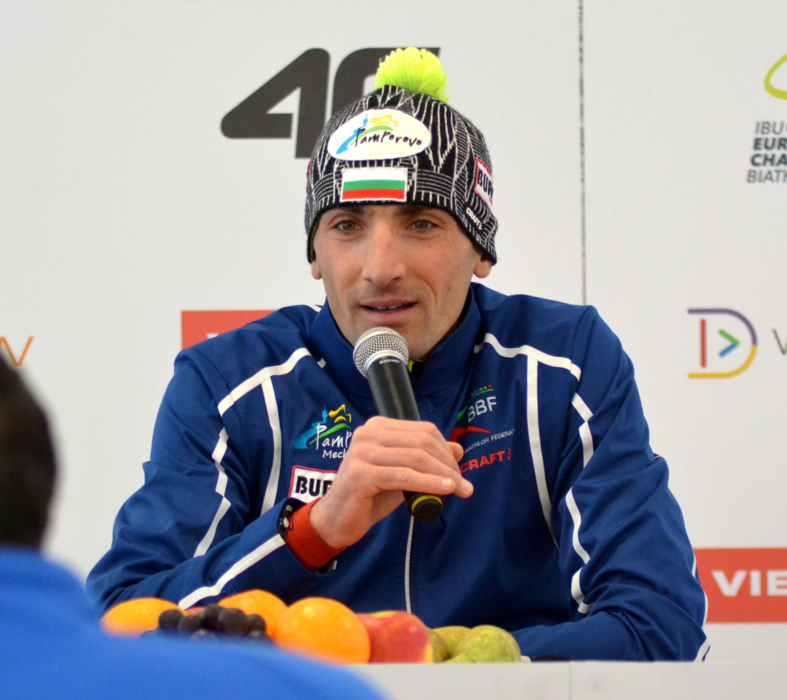 Open European Championships Biathlon 2017, Sprint Mens race.